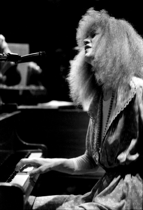 Carla Bley performing with her band at Keystone Korner, San Francisco, CA 2/10/1979. Photo by Brian McMillen /